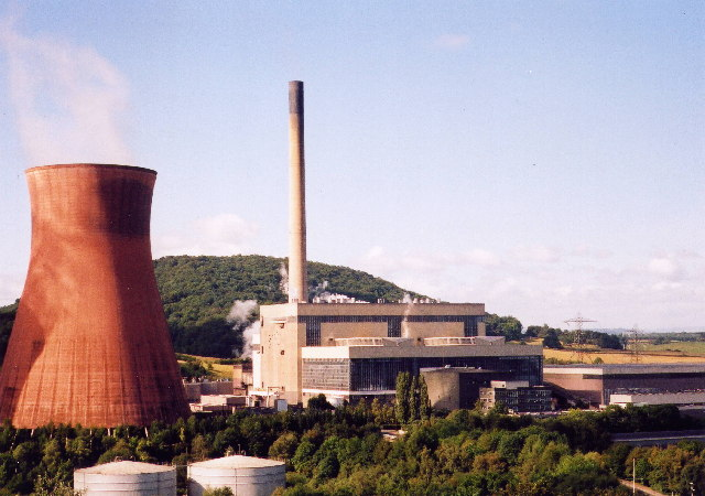 Ironbridge Power Station